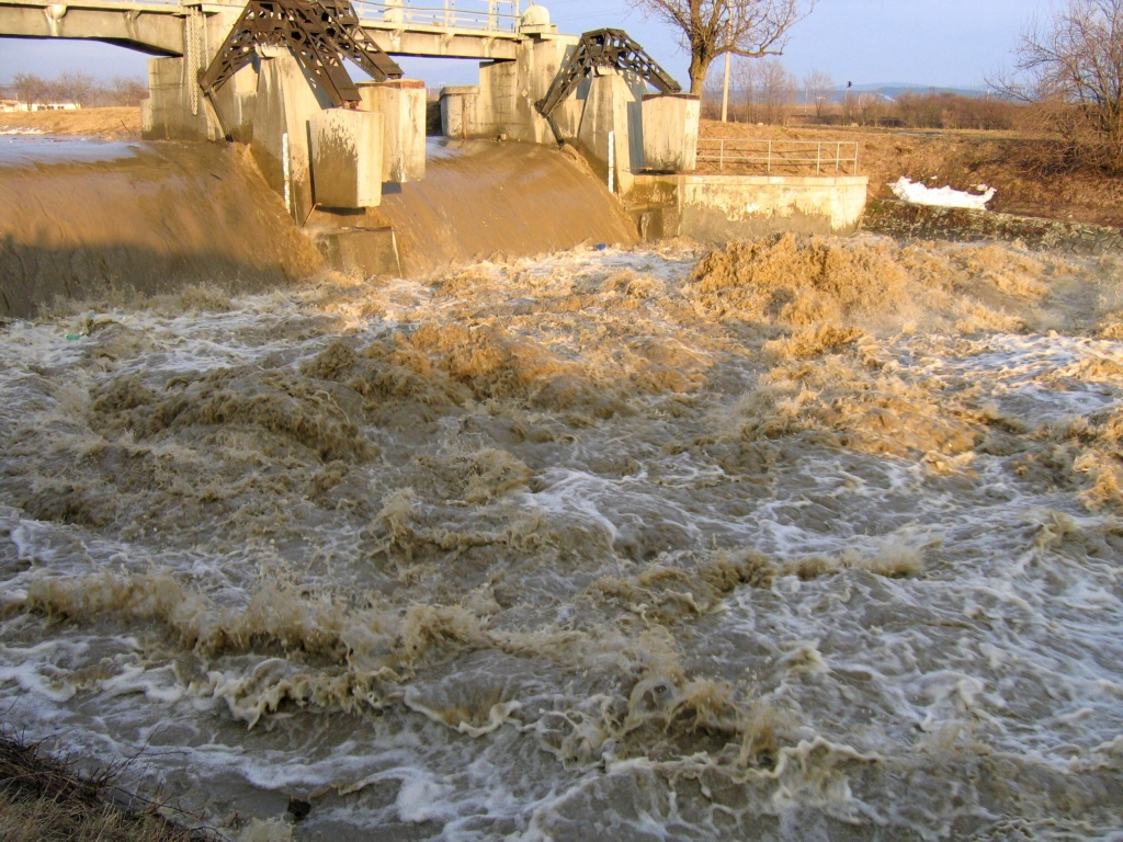 Flooded river Olšava in Uherský Brod - 3/2006